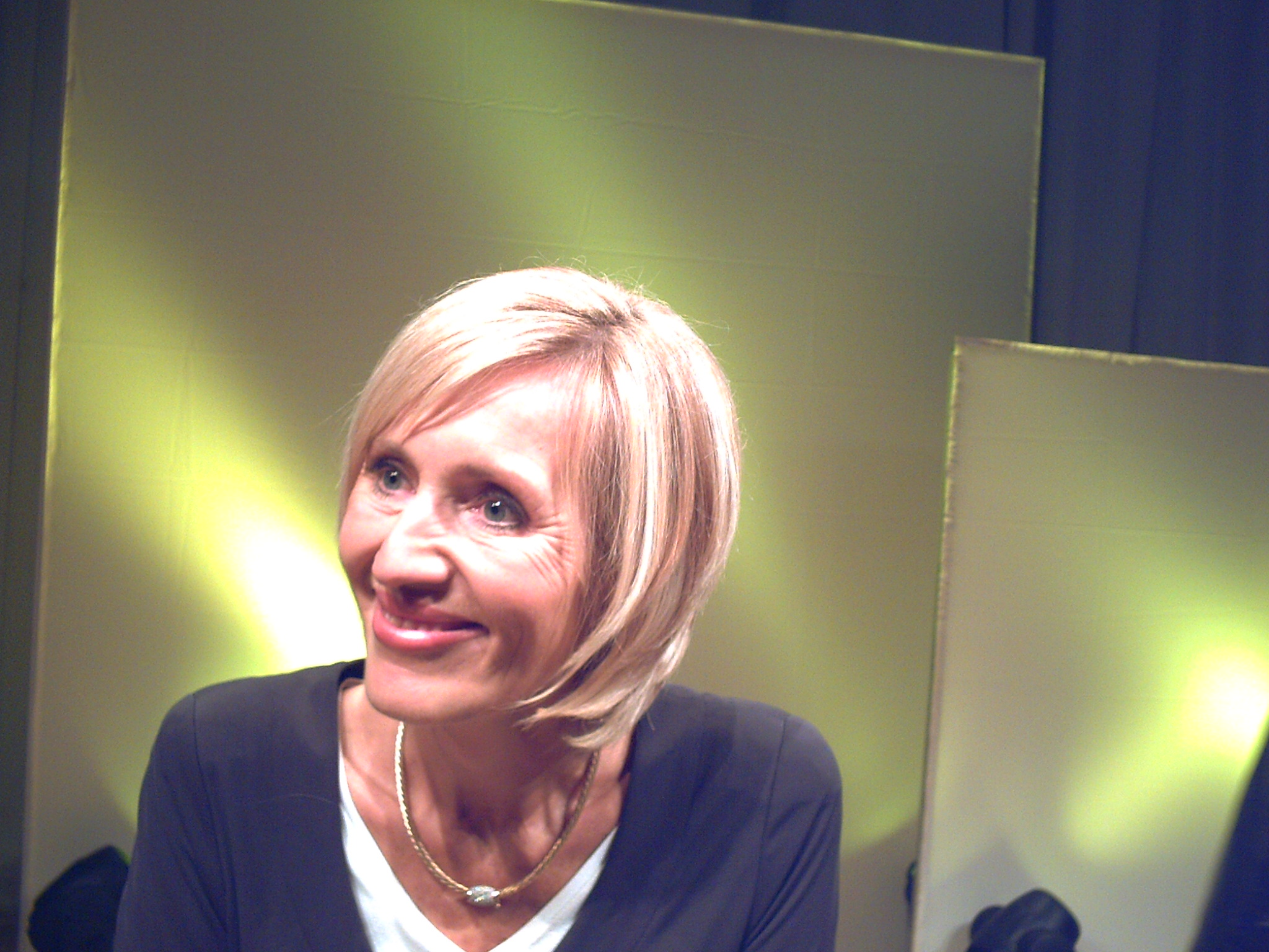 Popular German TV journalist and presenter Petra Gerster at the German Young Literature Award she presented at the Frankfurt Book Fair 2007.